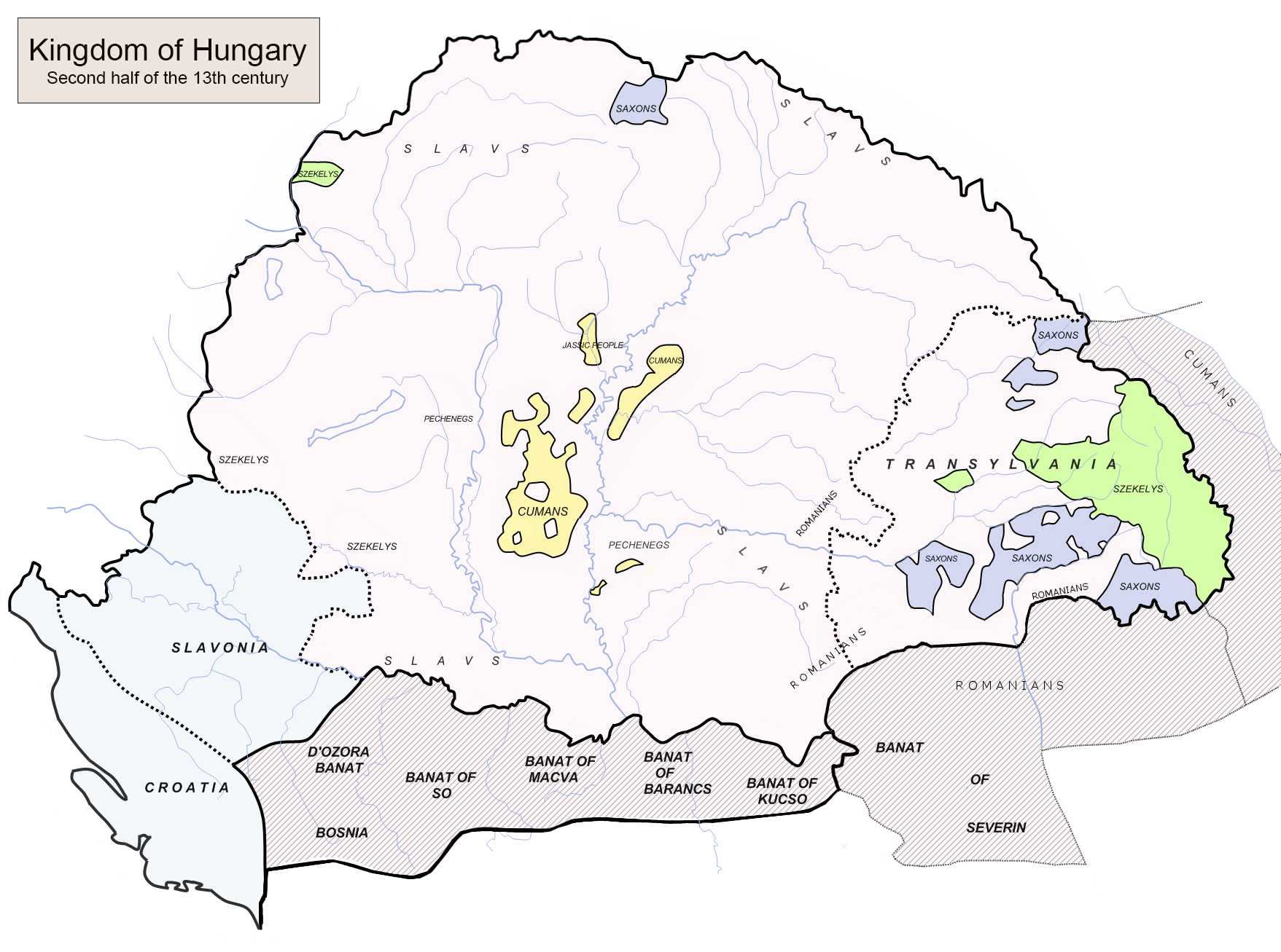 Hungary in the late 1200s (including Kingdom of Croatia in personal union with Hungary)